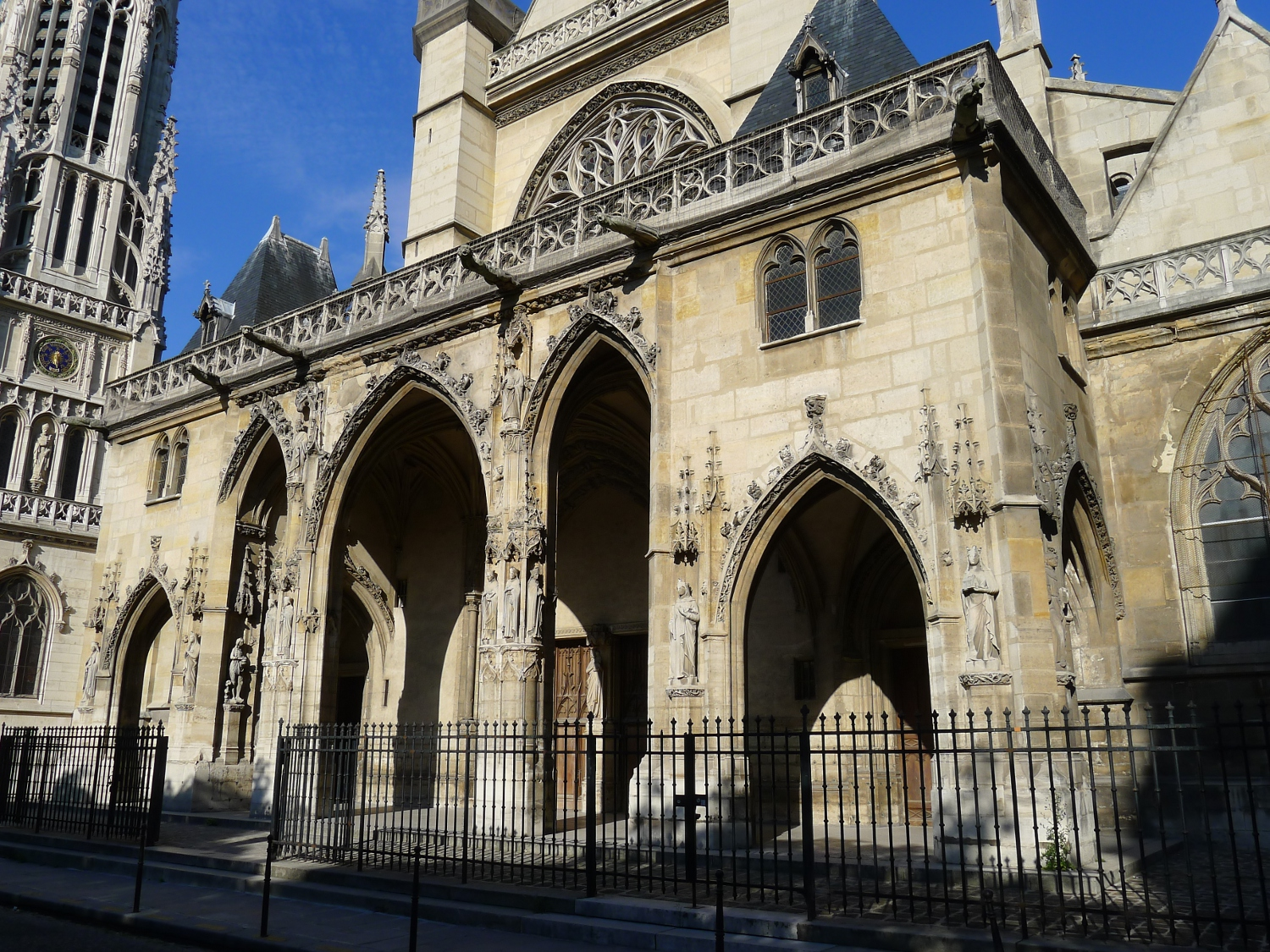 Saint-Germain l'Auxerrois church - Paris